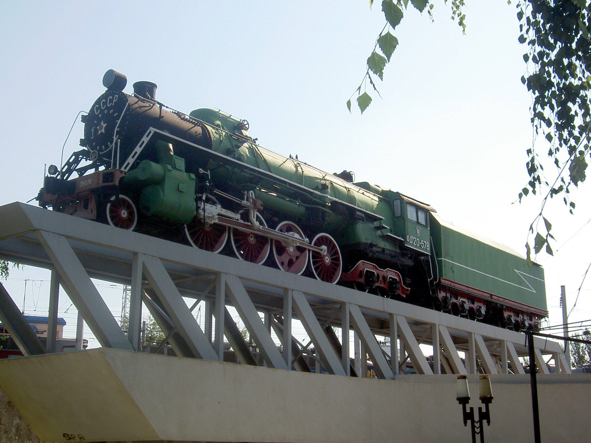 Steam locomotive monument near Kiev Passazhirsky train station